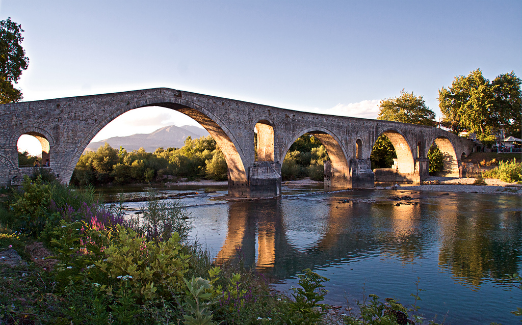 Bridge of Arta, Epirus, Greece